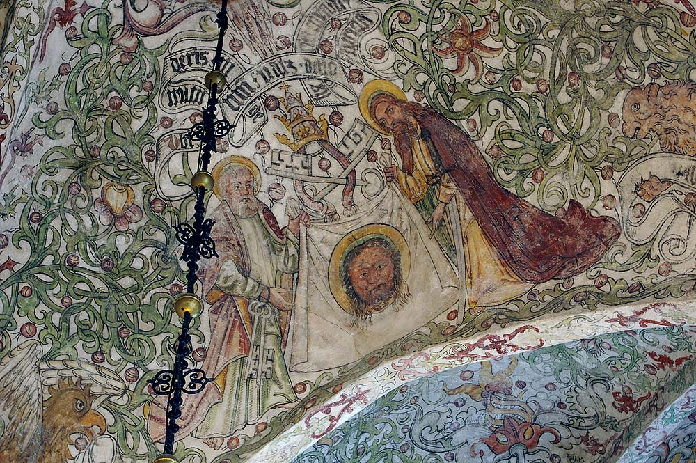 Paintings from 1460 in The Krämare chapel in St Peter church, Malmö, Sweden.